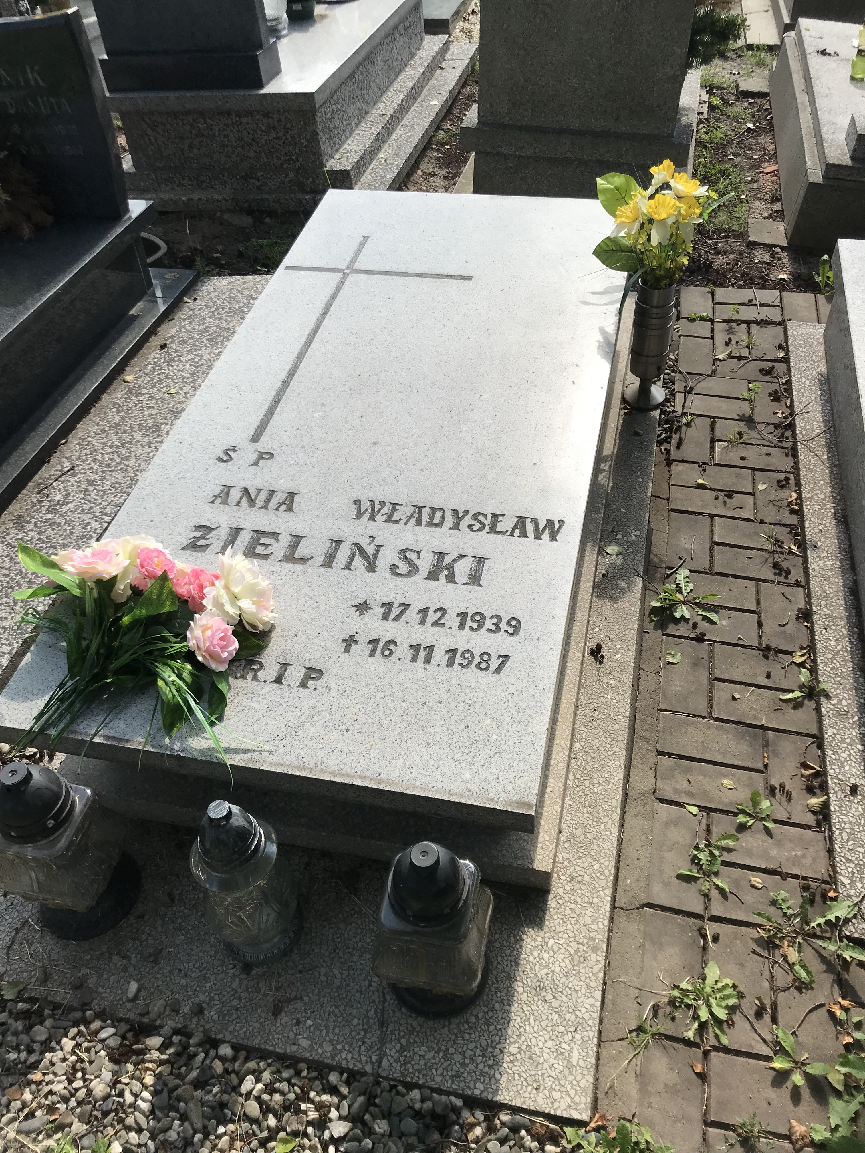 Tomb of Władysław Zieliński 1939-1987 Polish historian; cemetery on Józefowska street in Katowice